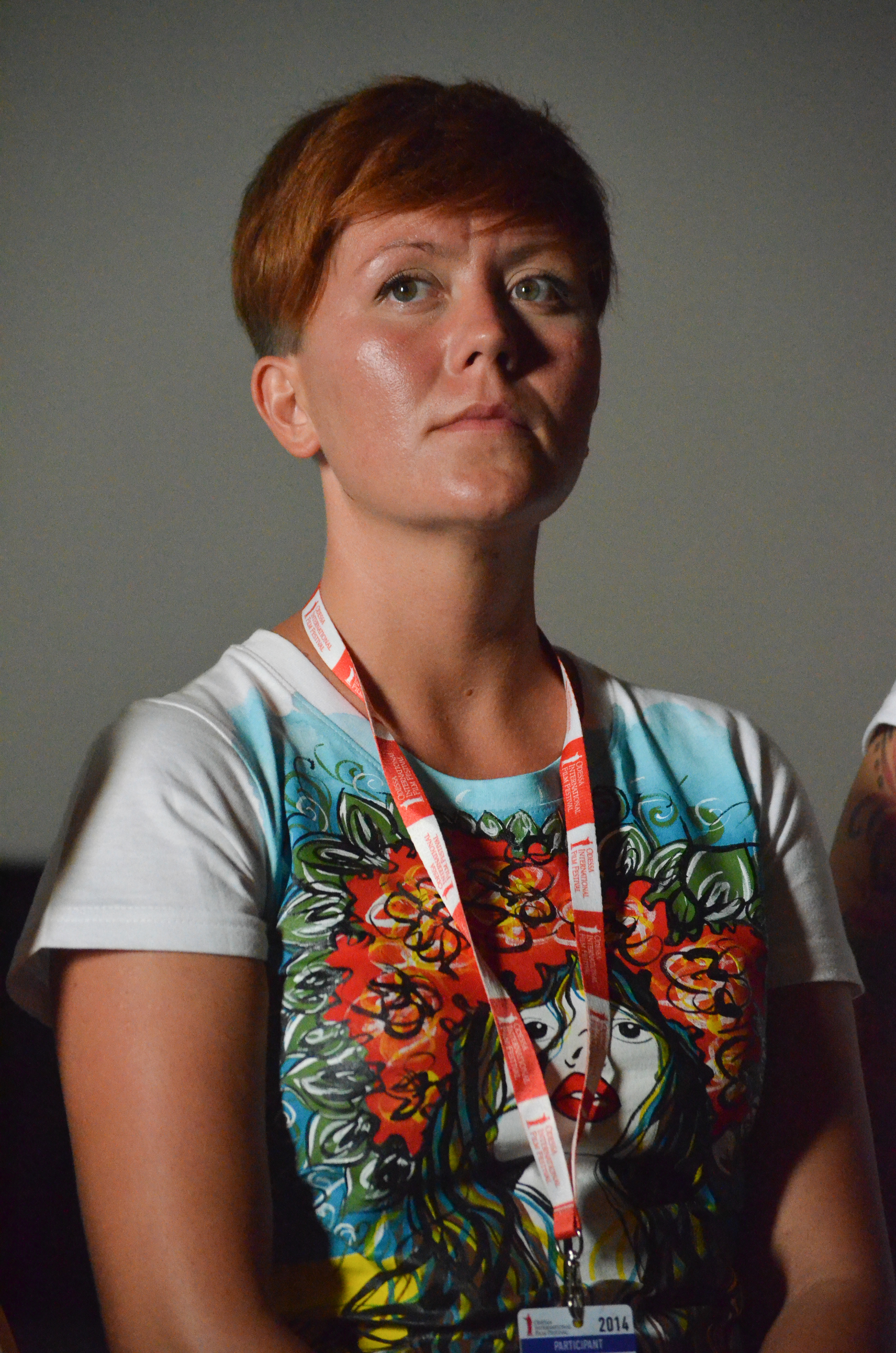 Discussion of the "Je suis FEMEN" (2014) film with its creators after screening at 5th Odessa International Film Festival.